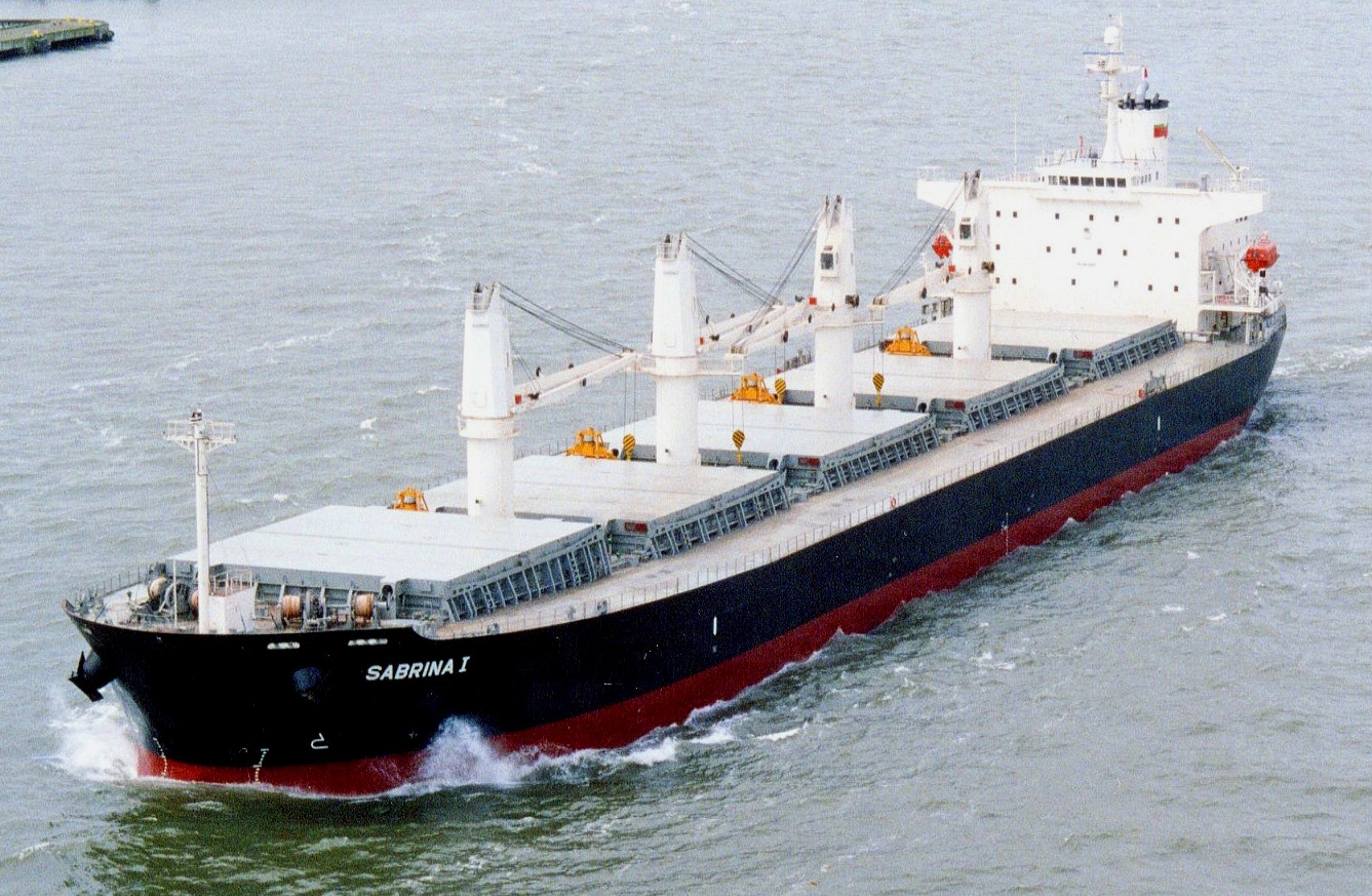 Cropped version of Image:Sabrina I.jpg. The bulk carrier Sabrina I, photographed from atop the Astoria-Megler Bridge. Sabrina I is a typical modern Handymax bulker with 5 holds, 5 hatches and 4 cranes. The ship is owned by Portline of Portugal. It was built by Japanese shipbuilder Tsuneishi Heavy Industries at the Balamban (Cebu), Philippines shipyard, and delivered in January 2005. Length over all (LOA): 190.00m beam: 32.26m (panamax) cranes: 4 x 30 metric tons SWL cargo hold capacity: about 67,500 cubic metres IMO Number: 9274927 MMSI Number: 356917000 Callsign: HPZW